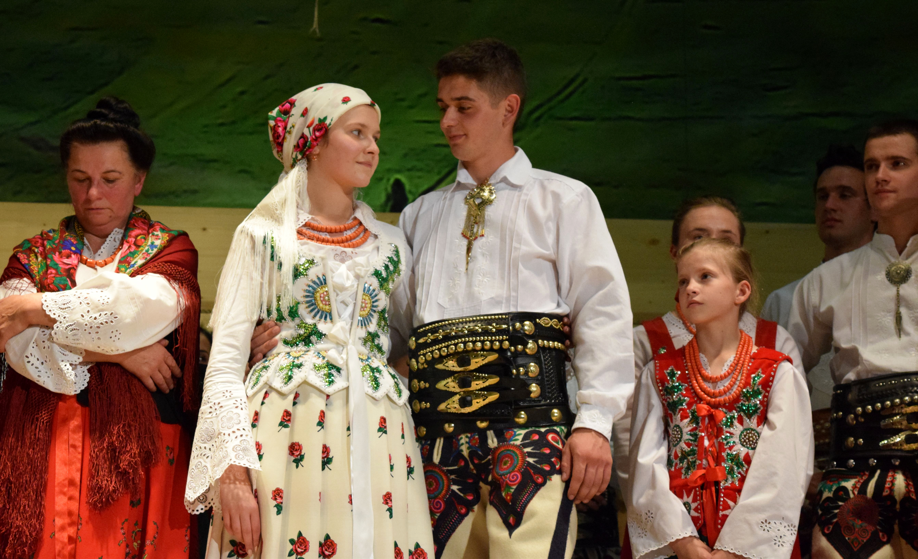 Members of the 'Wiyrchowianie' folklore group in Podhale costume